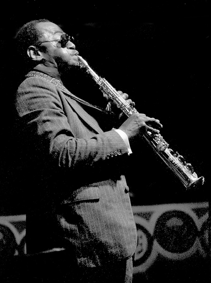 Archie Shepp at Keystone Korner, San Francisco, August 19, 1982. Photo: Brian McMillen /